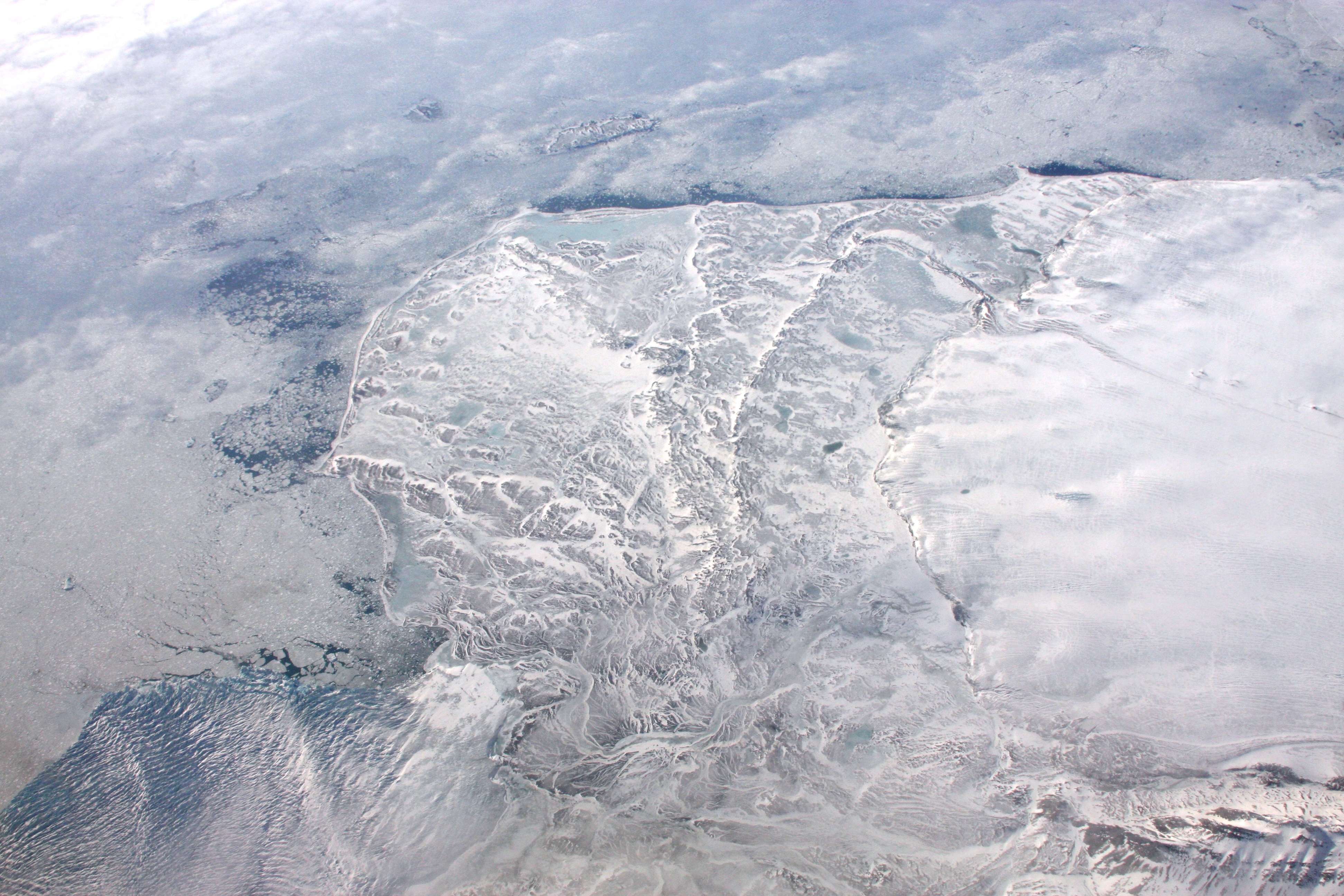 Part of the western coast of Wedel Jarlsberg Land, Svalbard